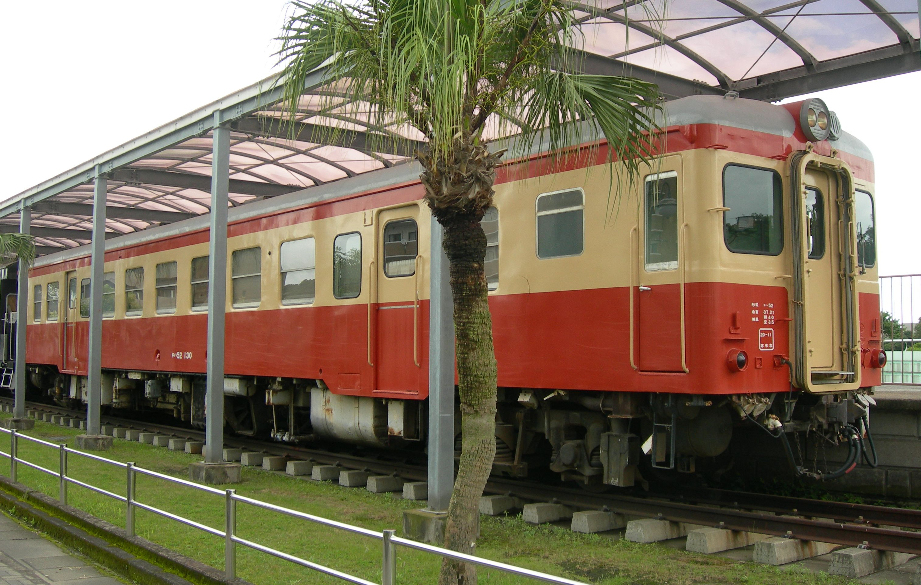 Preserved KiHa 52 series DMU car KiHa 52 130 in the Osumi Line Memorial Park in Shibushi, Kagoshima, Japan